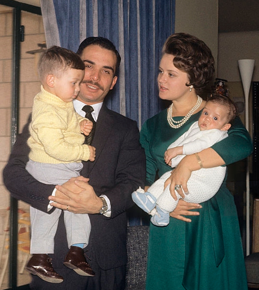 King Hussein of Jordan photographed in his house in Amman with his first son Abd Allah in arms, while his wife Muna is holding their second son, Faysal. Amman (Jordan), March 1964.